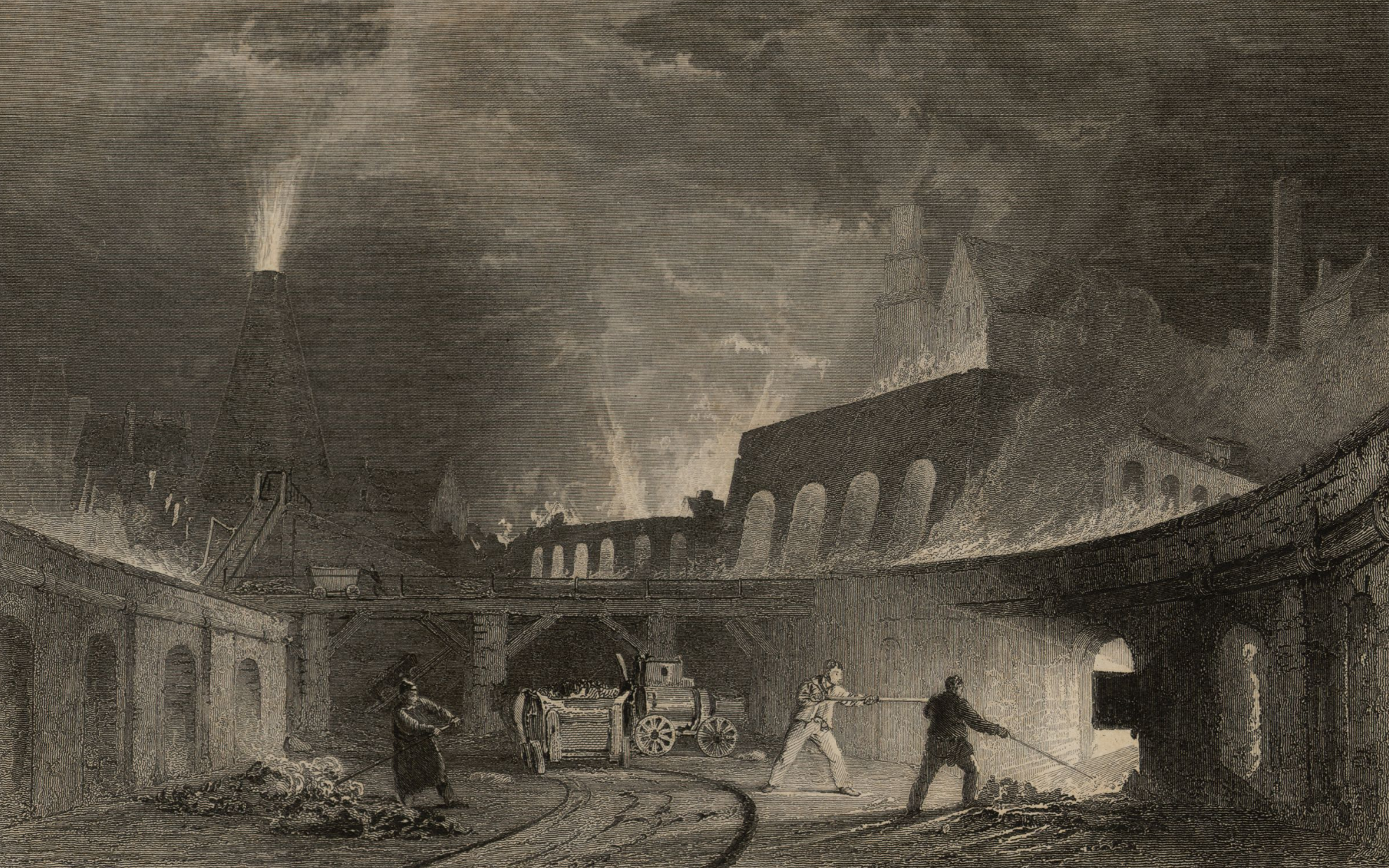 Numerous drawings and landscapes of villages, towns and landmarks in Wales and Ireland. By French artist Alphonse Dousseau.